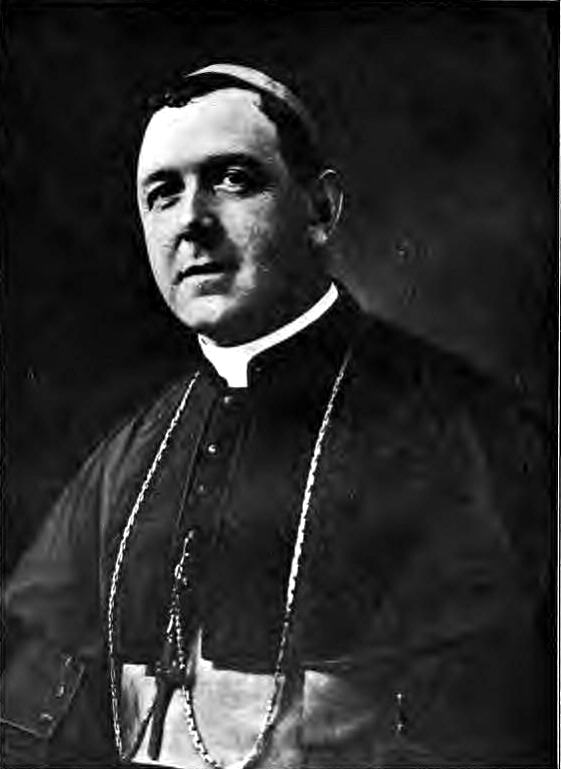 John Joseph Cantwell, the first archbishop of the Roman Catholic Archdiocese of Los Angeles. Taken from San Juan Capistrano Mission by Engelhardt, Zephyrin, O.F.M. (1922). Standard Printing Co., Los Angeles, CA.